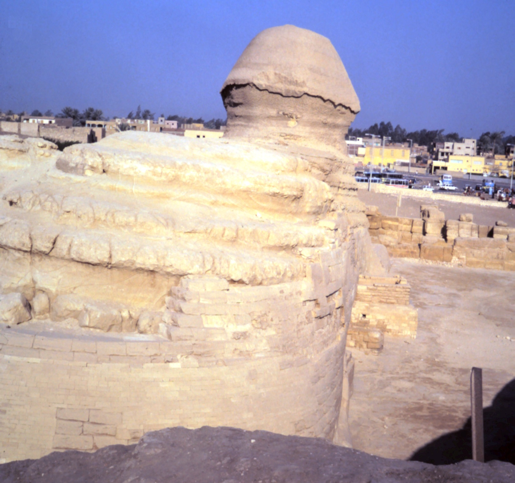 A rear view of the Great Sphinx of Giza in March 1981 showing the extent of restoration work at that time from an angle not usually covered in most articles.